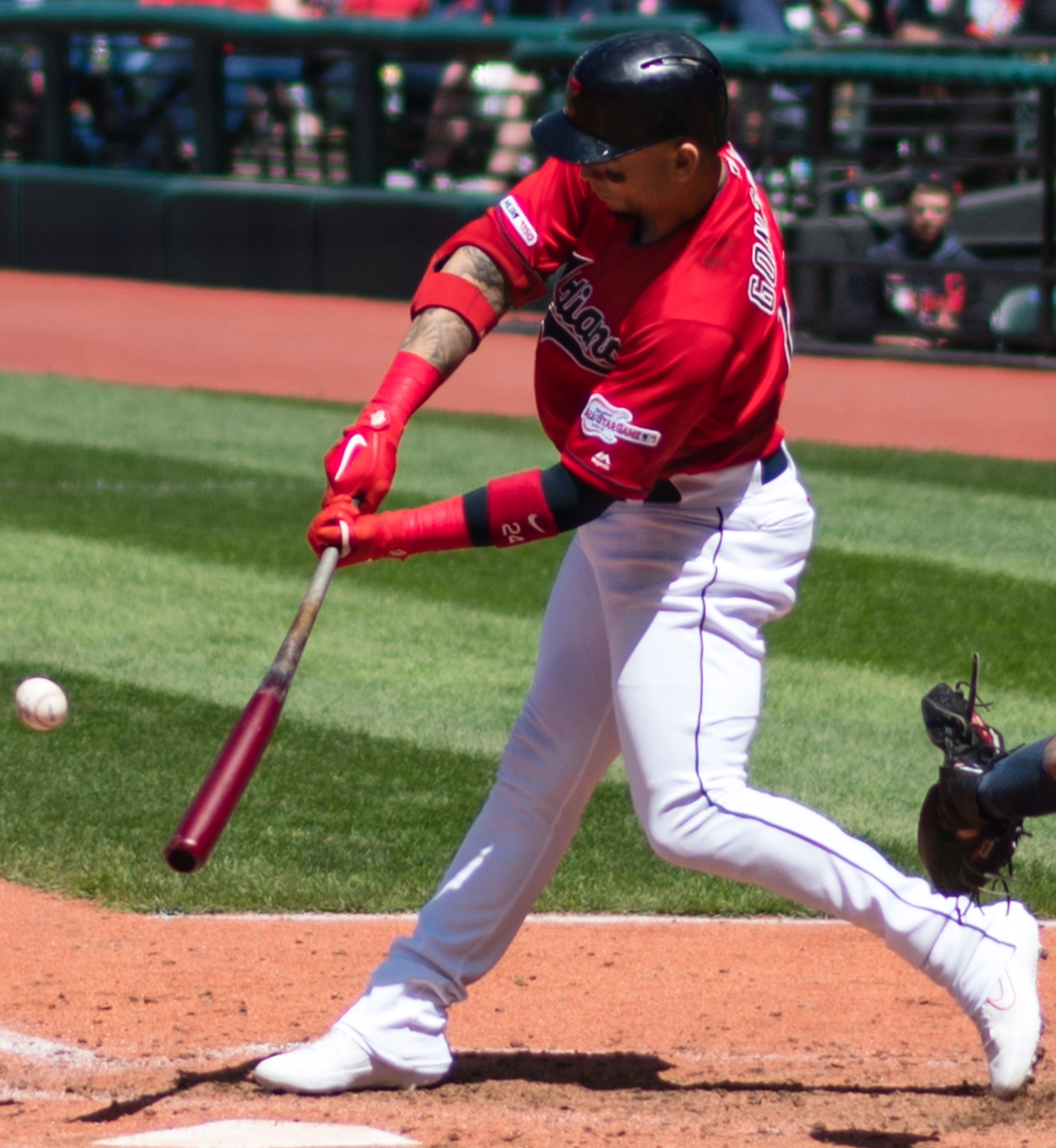 Carlos Gonzalez in 2019